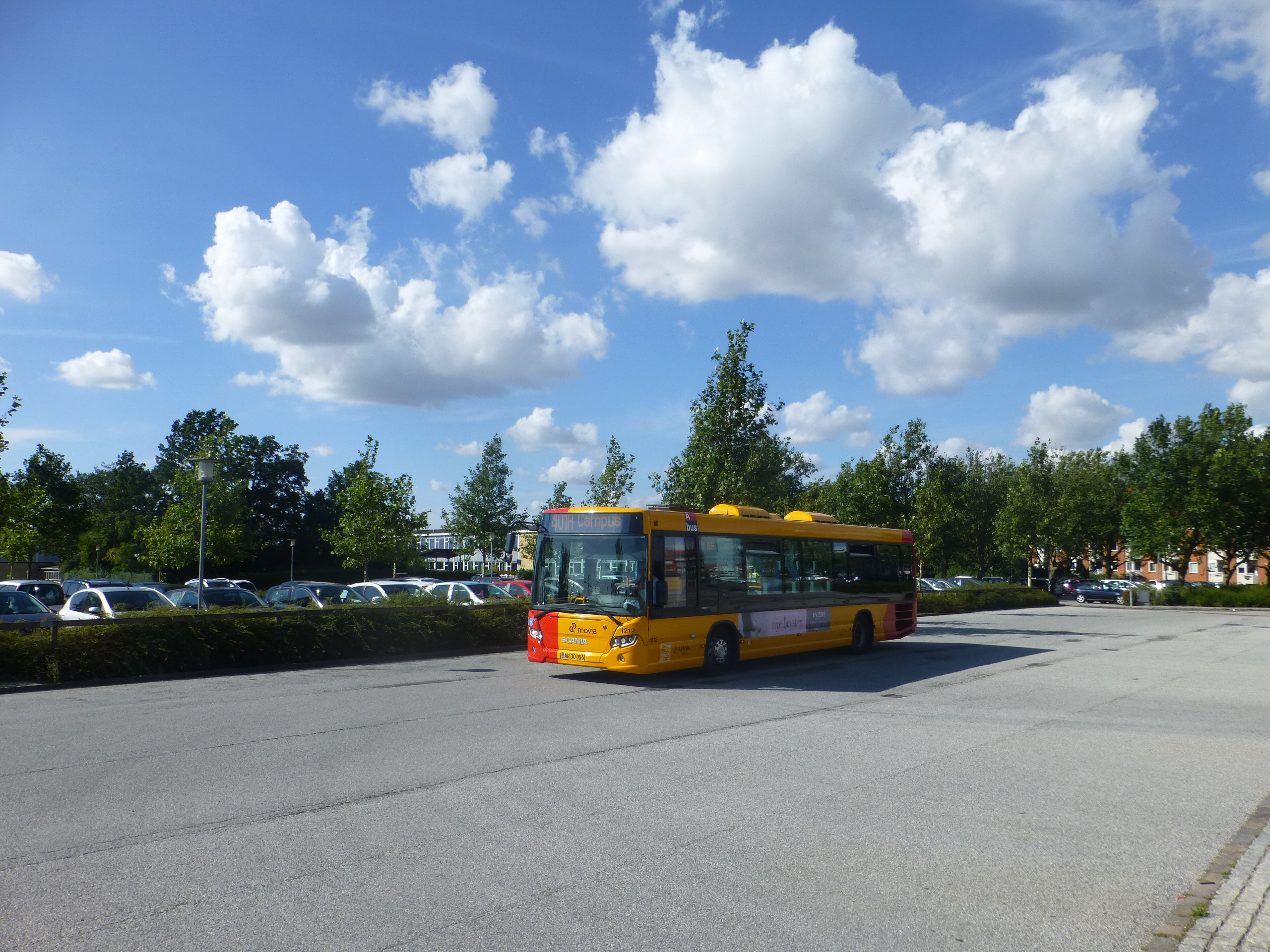 Movia bus line 401A at Ringsted Station in Denmark.